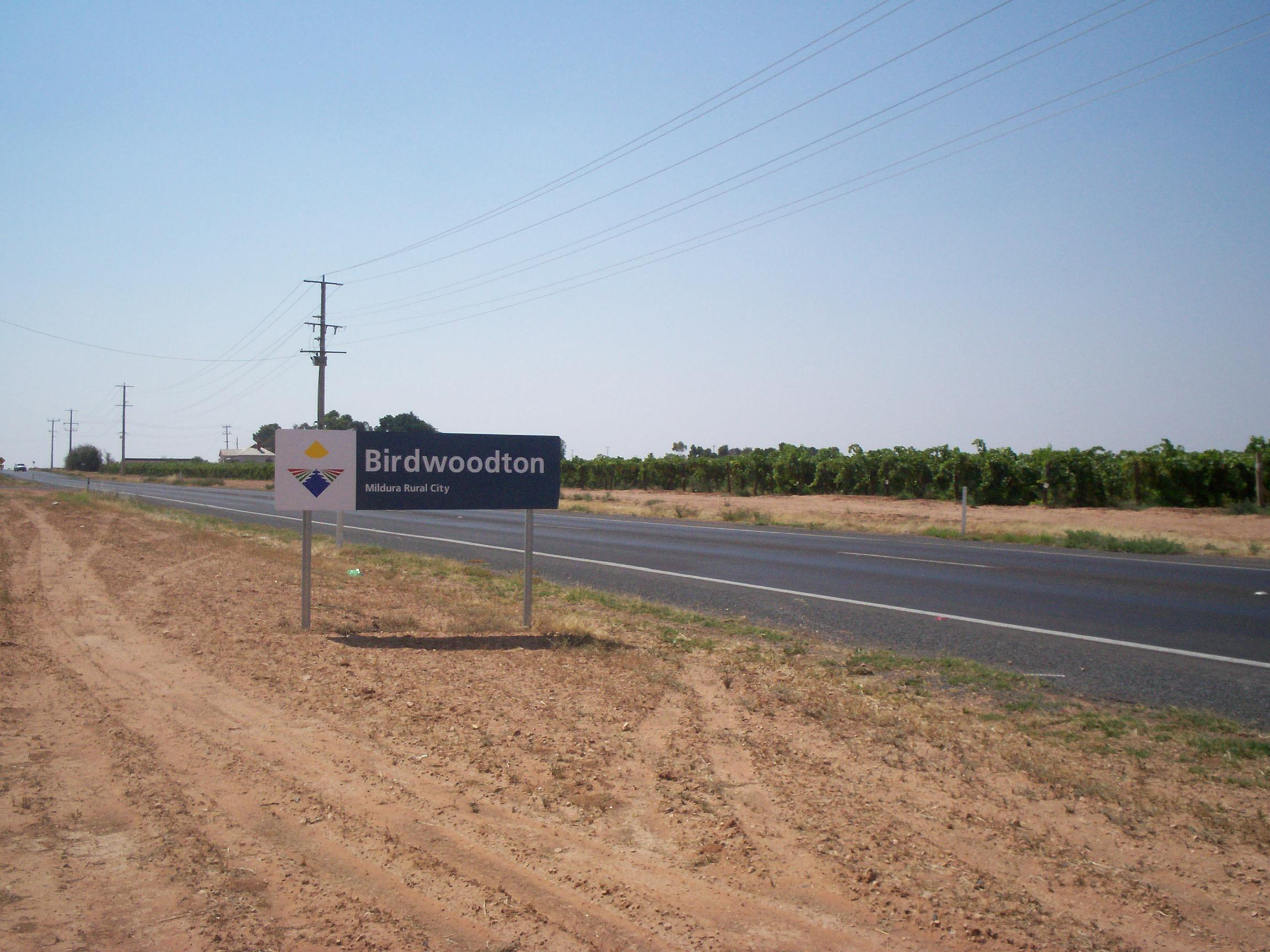 Birdwoodton, Victoria. Photograph taken by myself, January 15, en:2007.